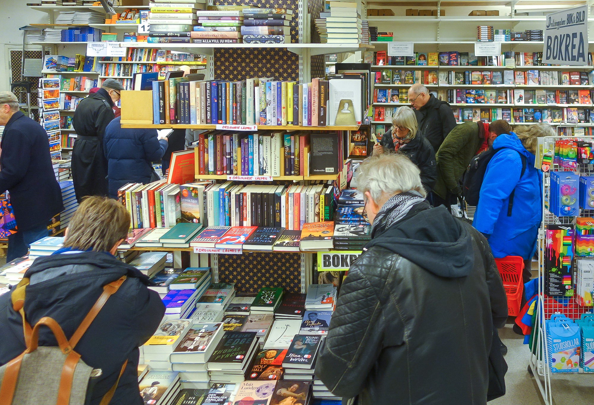 Book sale in the shop Bok & Bild on Drottninggatan in Stockholm 2020.